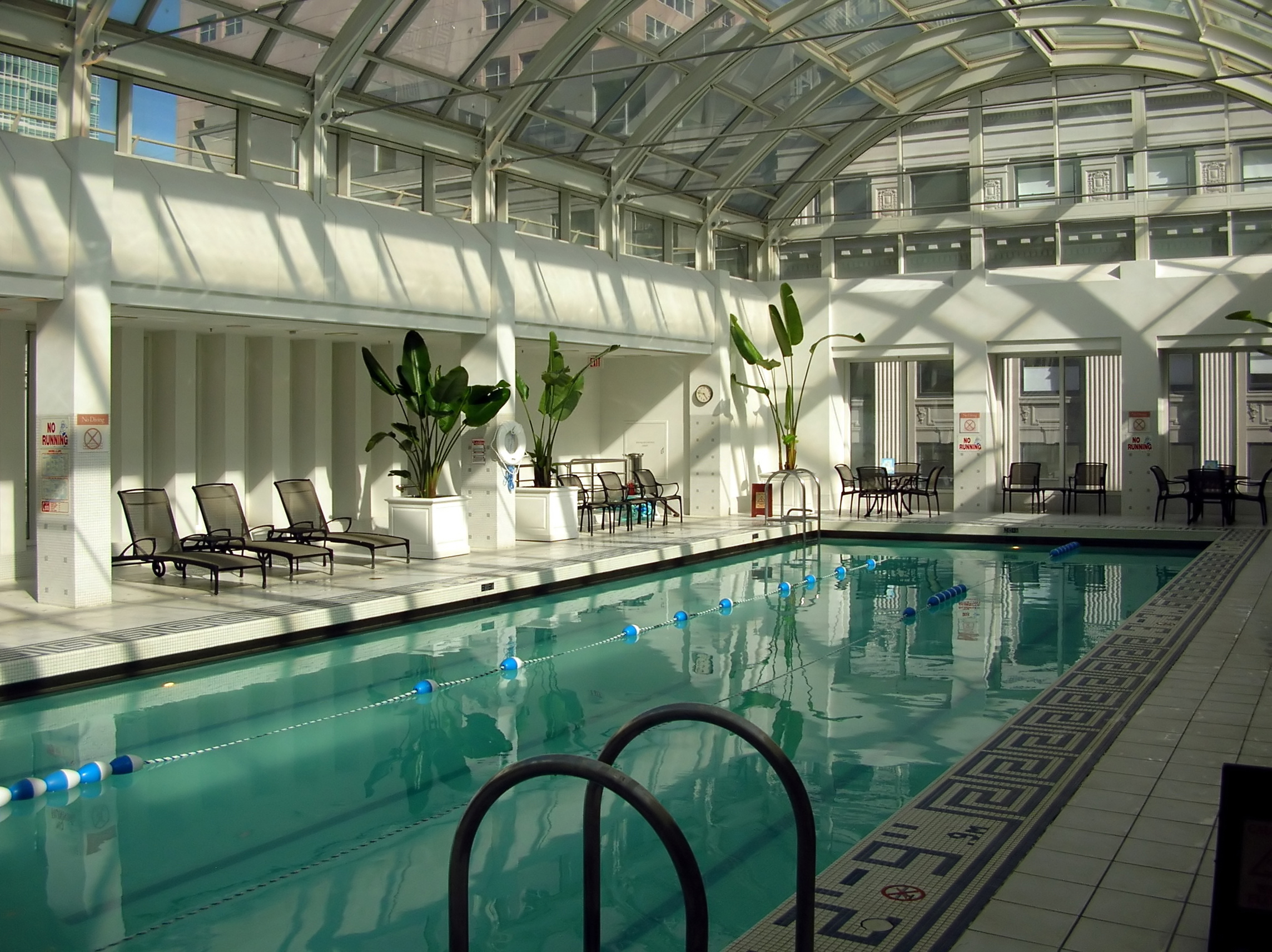 Palace Hotel swimming pool, San Francisco, California, USA